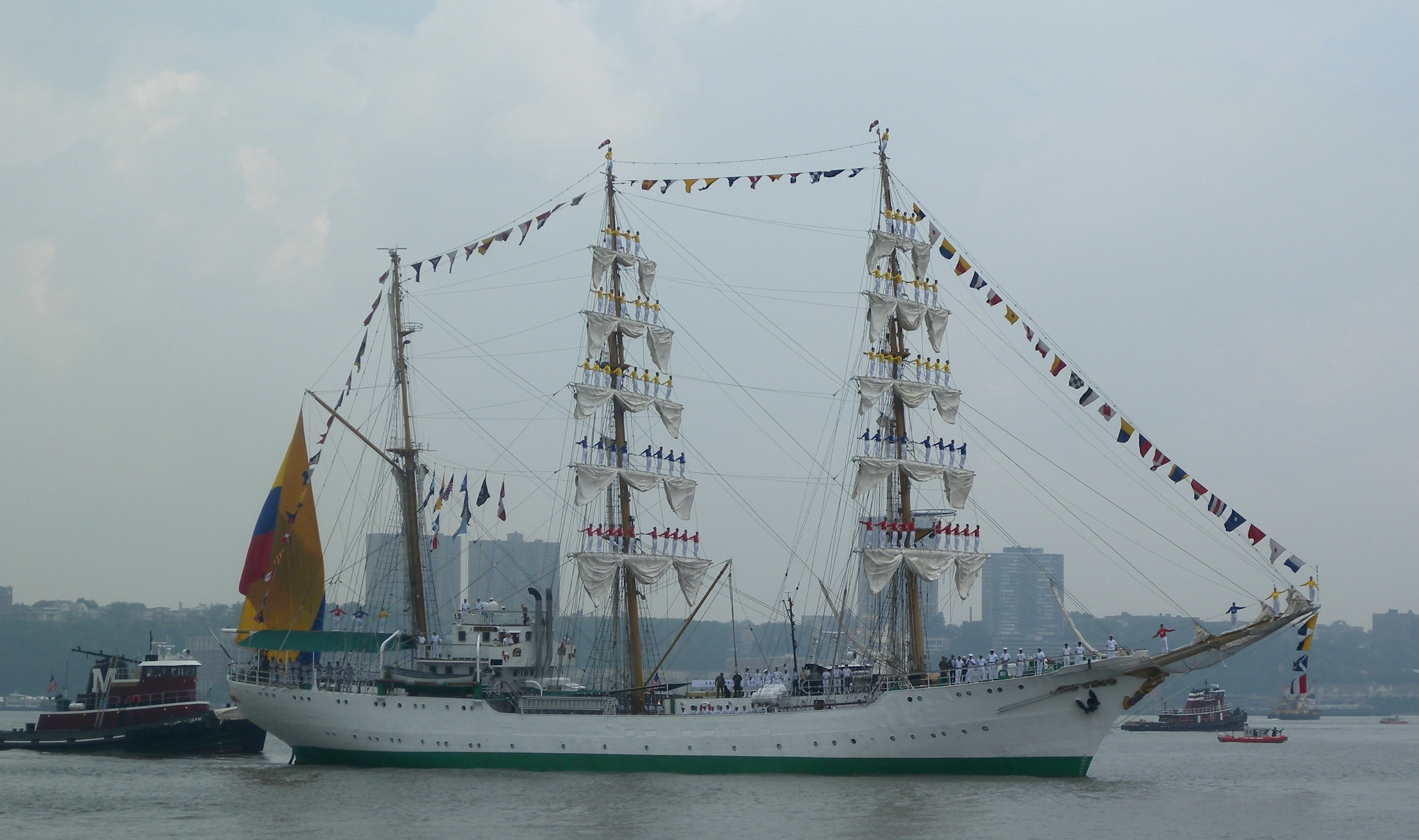 Looking west at tall ship during cloudy Parade of Sail.